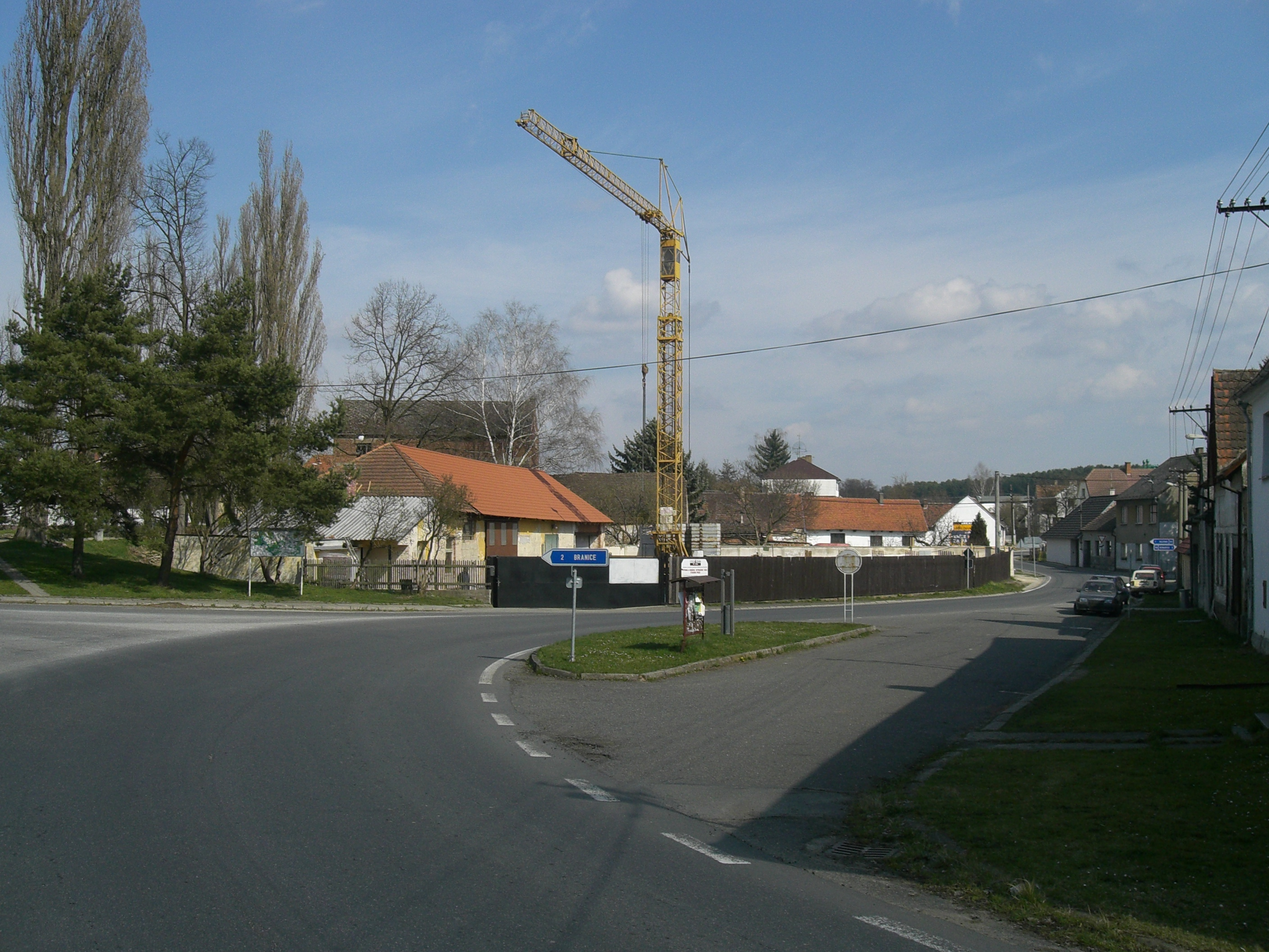 Veselíčko village in the Písek District, Czech Republic